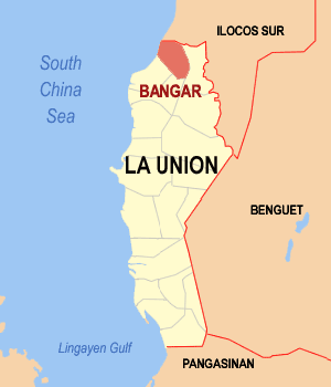 Map of La Union showing the location of Bangar